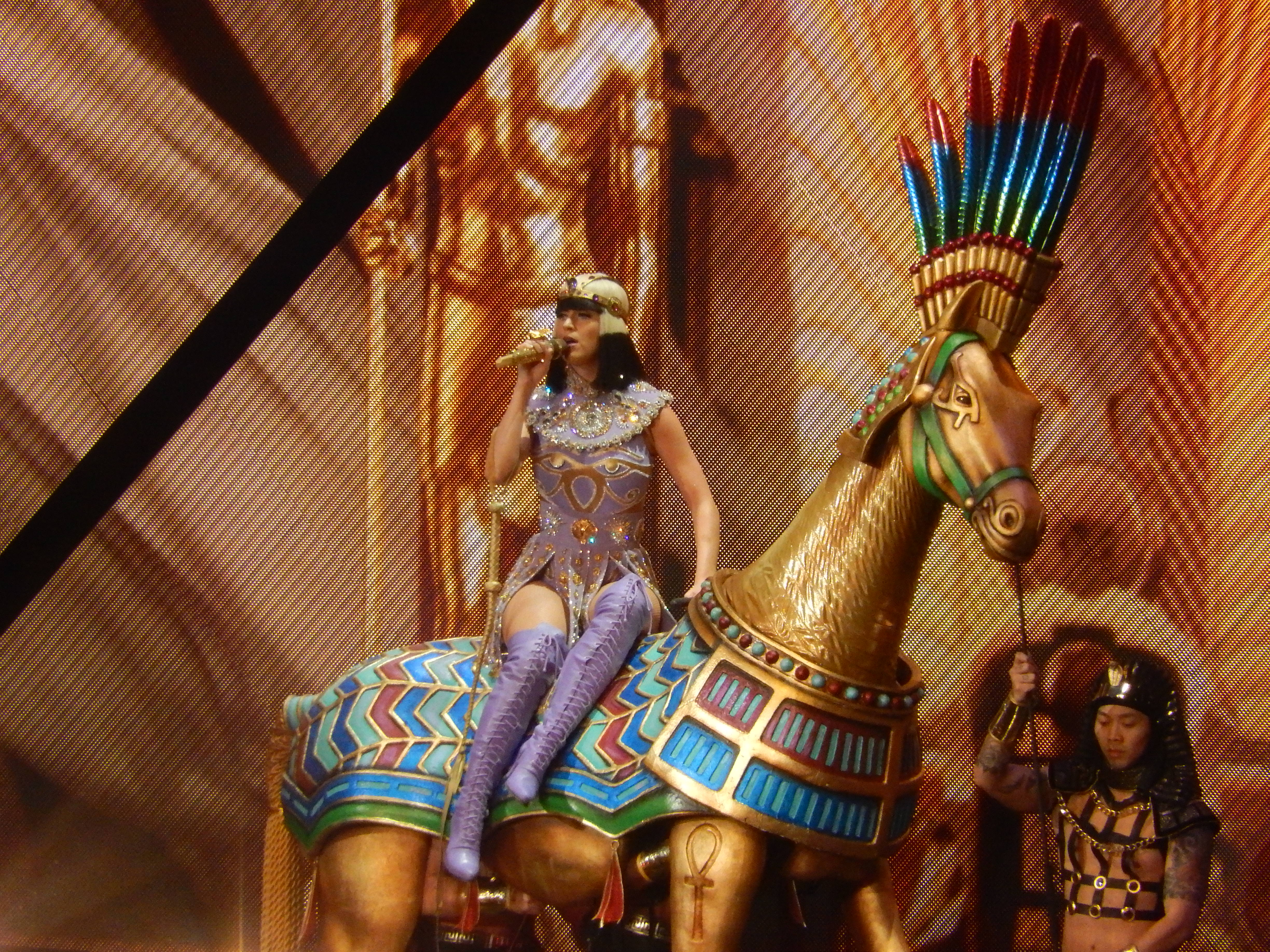 Katy Perry performing at the Prudential Center in Newark, New Jersey on July 11, 2014.